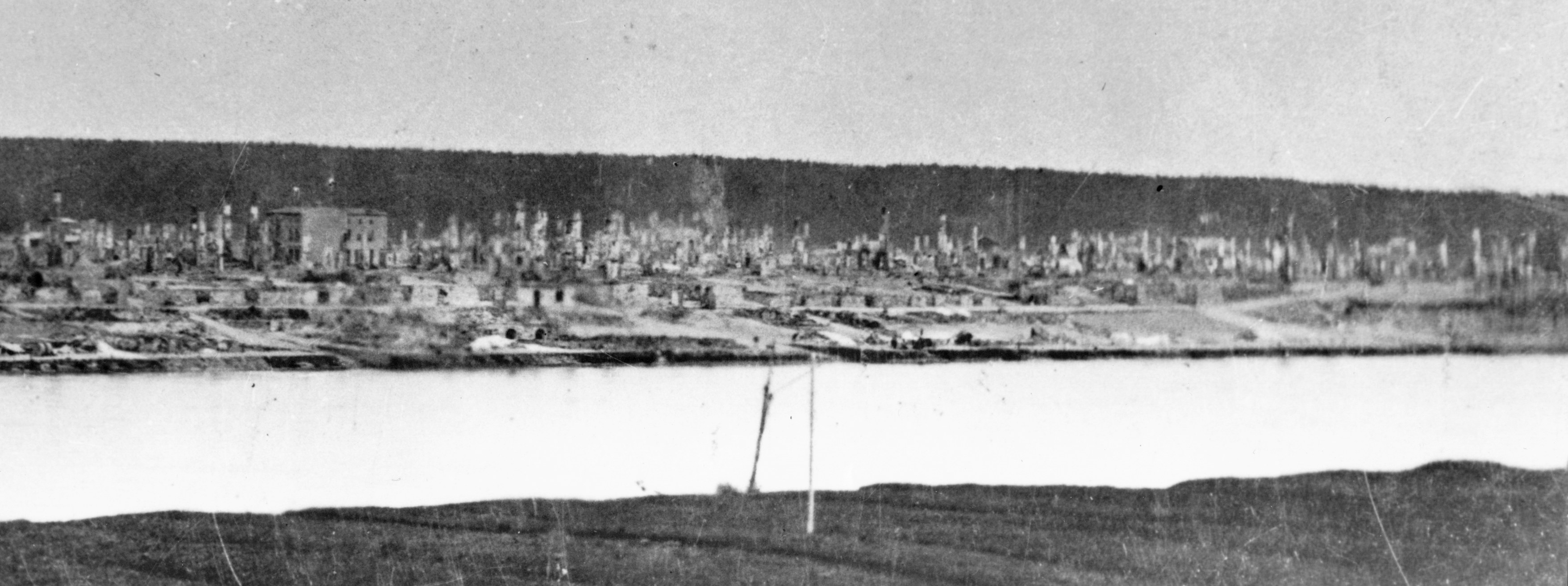 Umeå seen from Teg, soon after the city fire